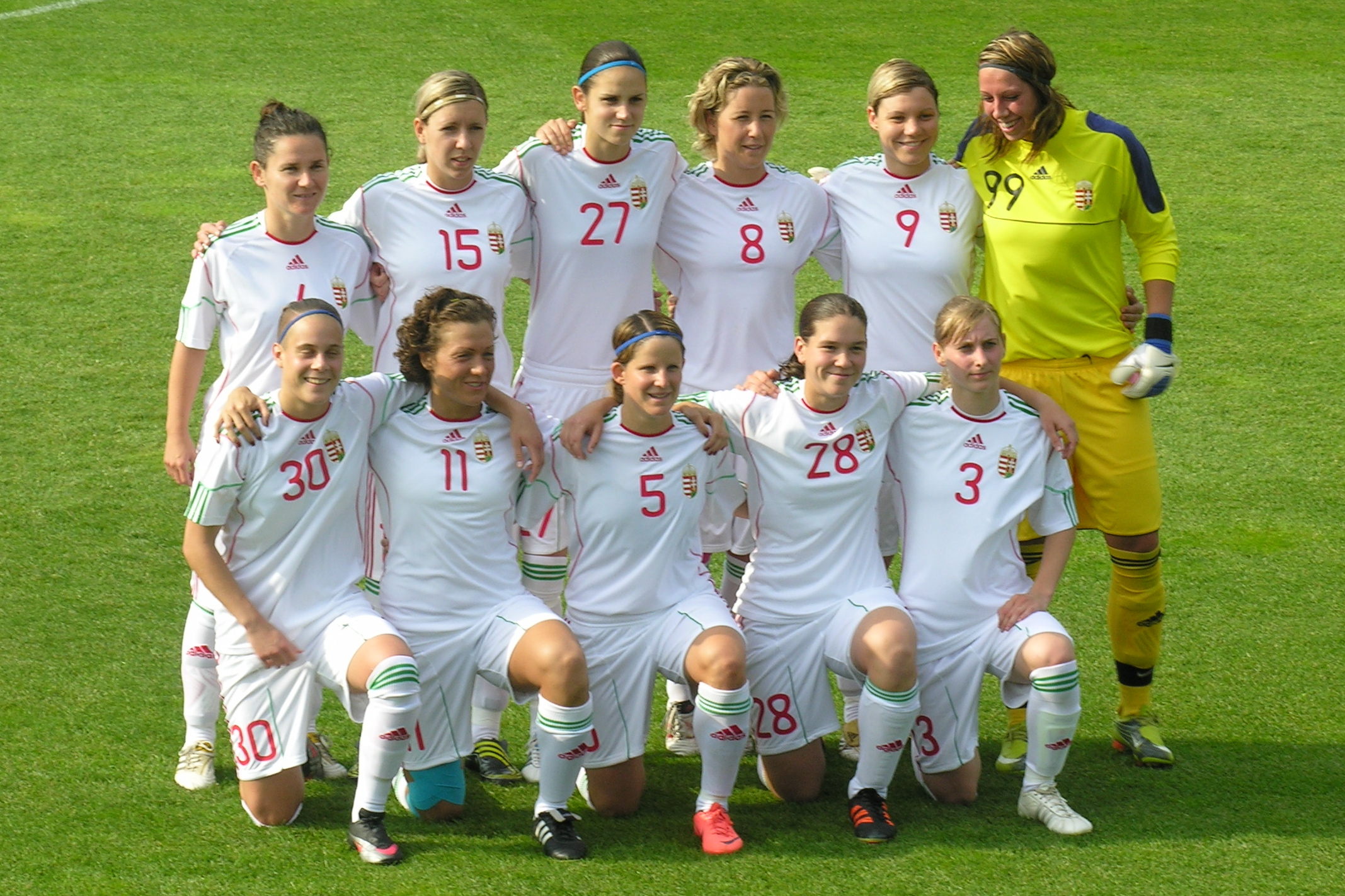 Hungarian women's national team 23th May 2011 in Telki before the friendly international match with Ukraine.